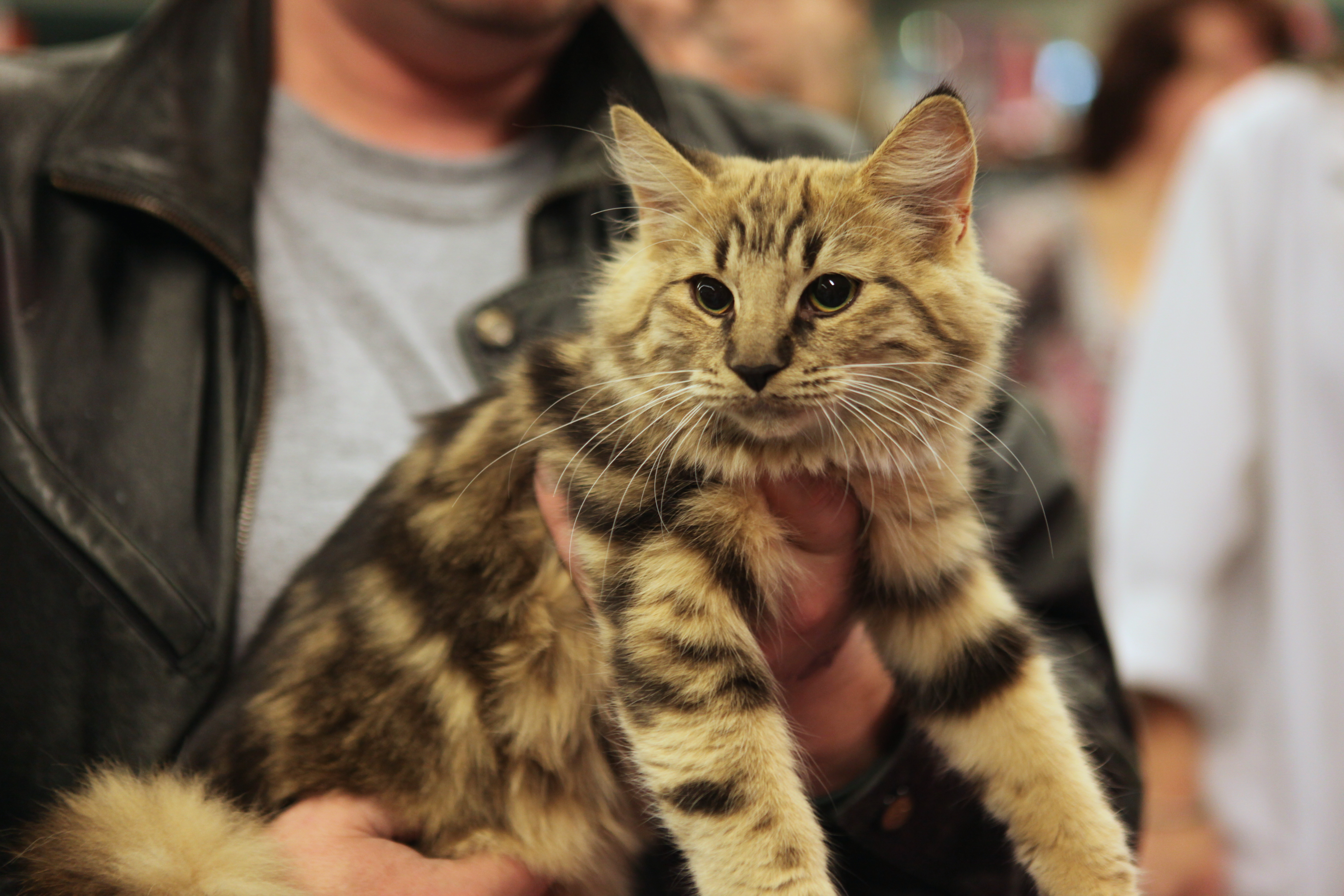 Norwegian forest cat amber tabby.